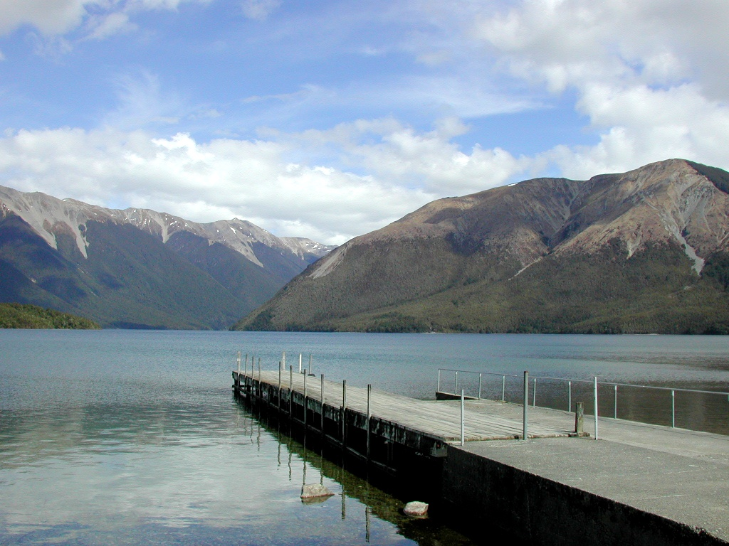 Jetty on West Bay of Lake Rotoiti, looking towards Mount Robert